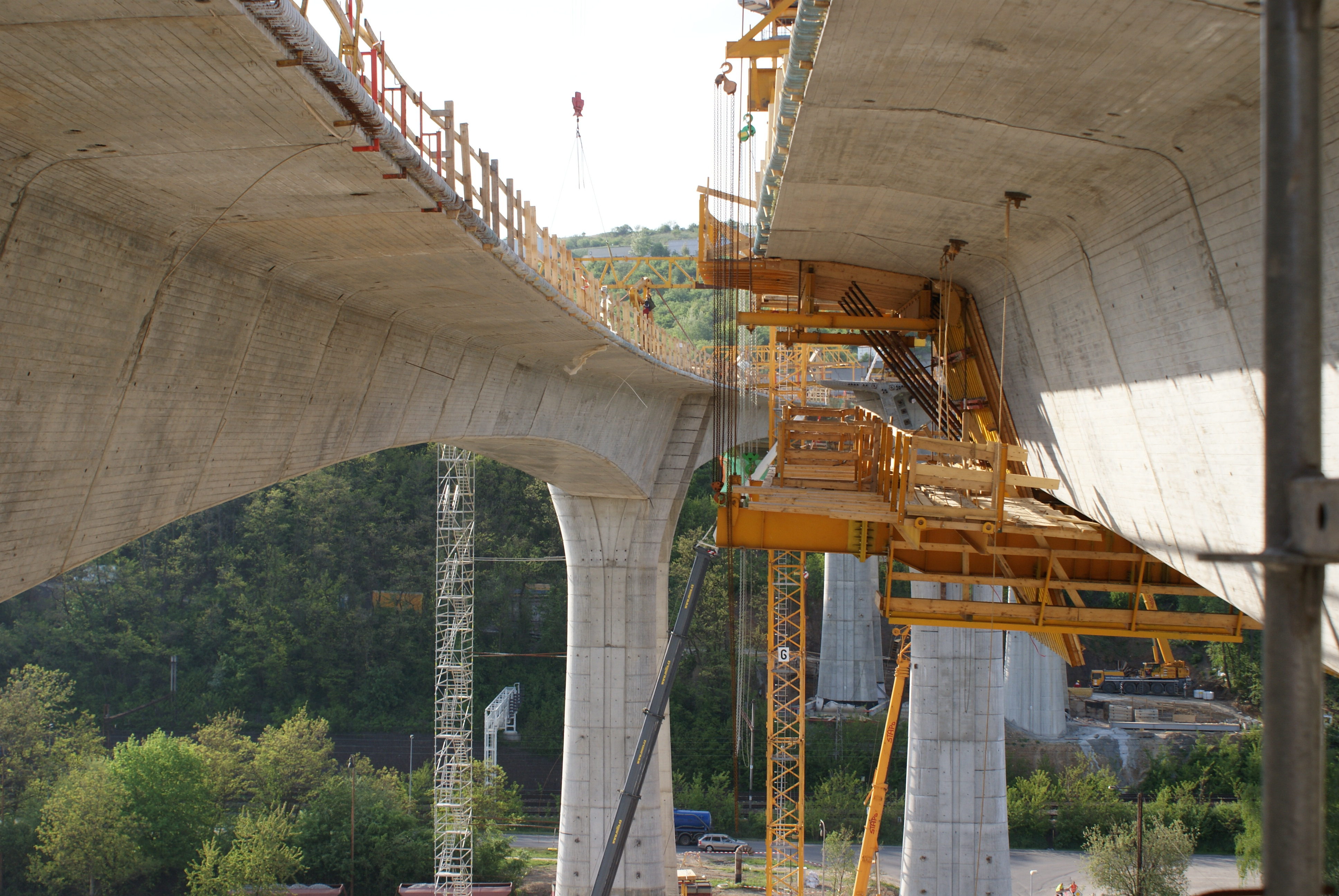 Lahovicka estakada under construction.